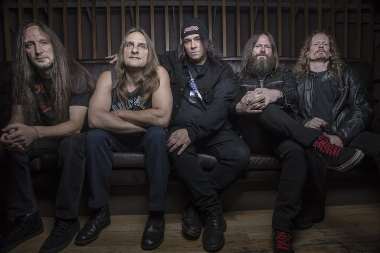 Full photo of current lineup